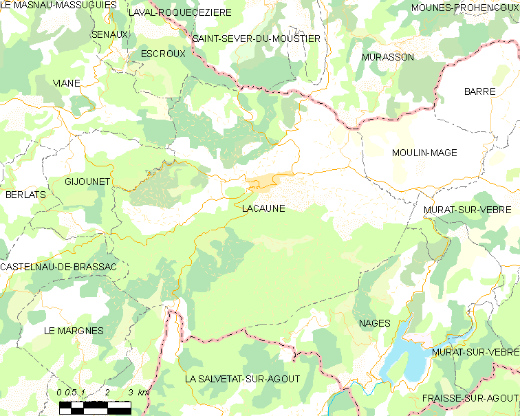 Map commune FR insee code 81124.png - Lacaune